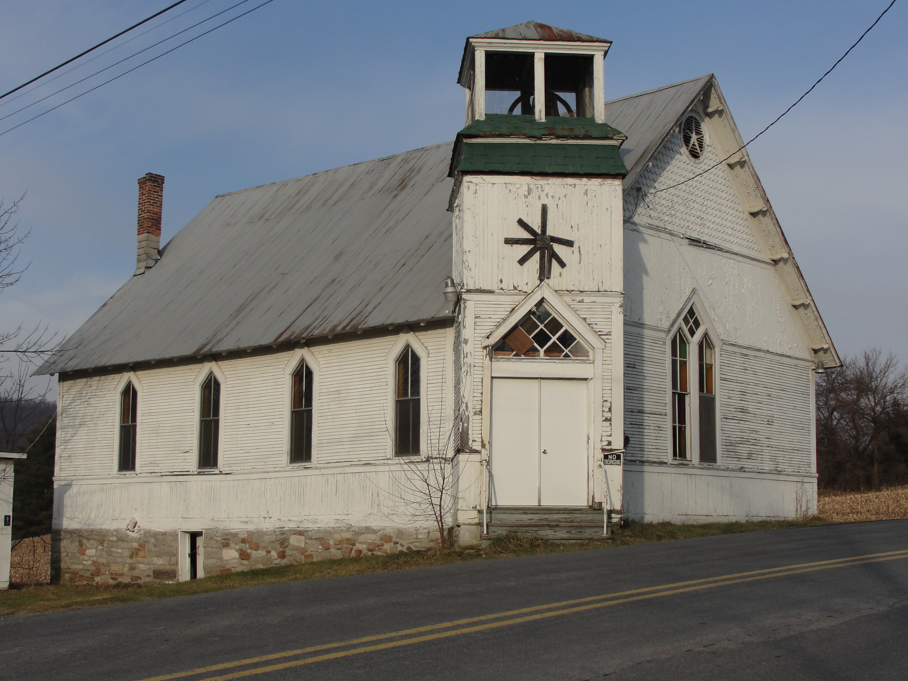 This photo depicts the Dubsite Evangelical Church in Linden Hall, Pennsylvania. It was constructed in 1897.